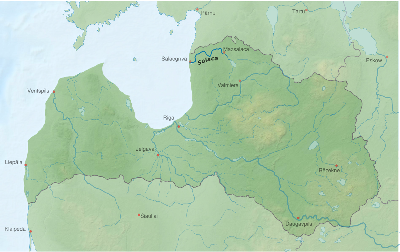 Map of river Salaca in Latvia based on relief-location maps by users: NNW, Виктор В, Alexrk2, Chumwa, Karlis